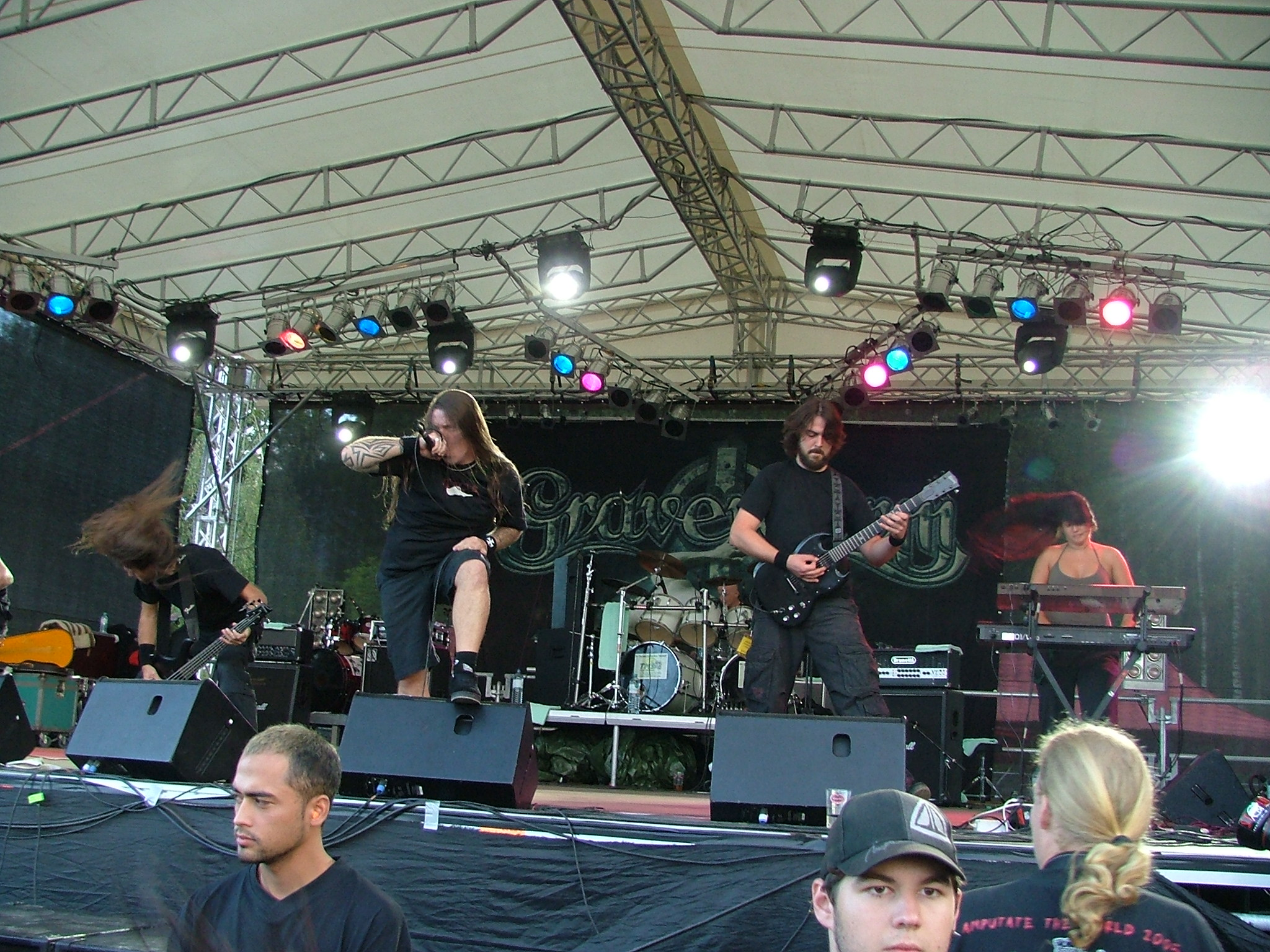 Italian dark metal band Graveworm at 'Rock the Lake' in Finkenstein am Faaker See